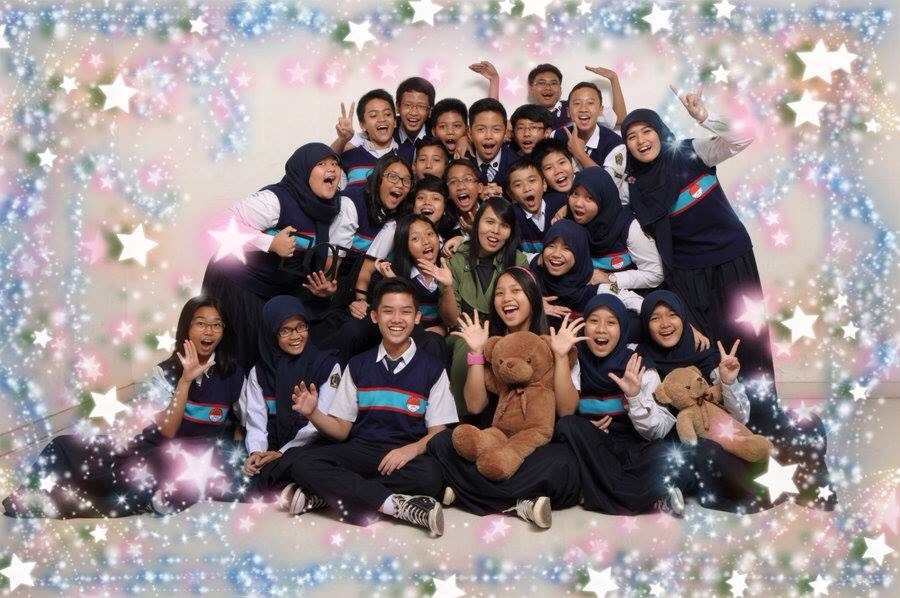 Salah satu kelas Digital jenjang 9 (9-11)